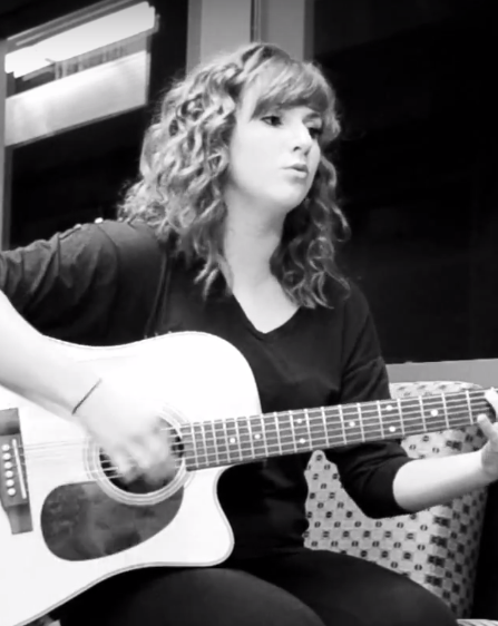 Illinois musician Emily Otnes performing in an interview with Symphony Magazine on November 20, 2013